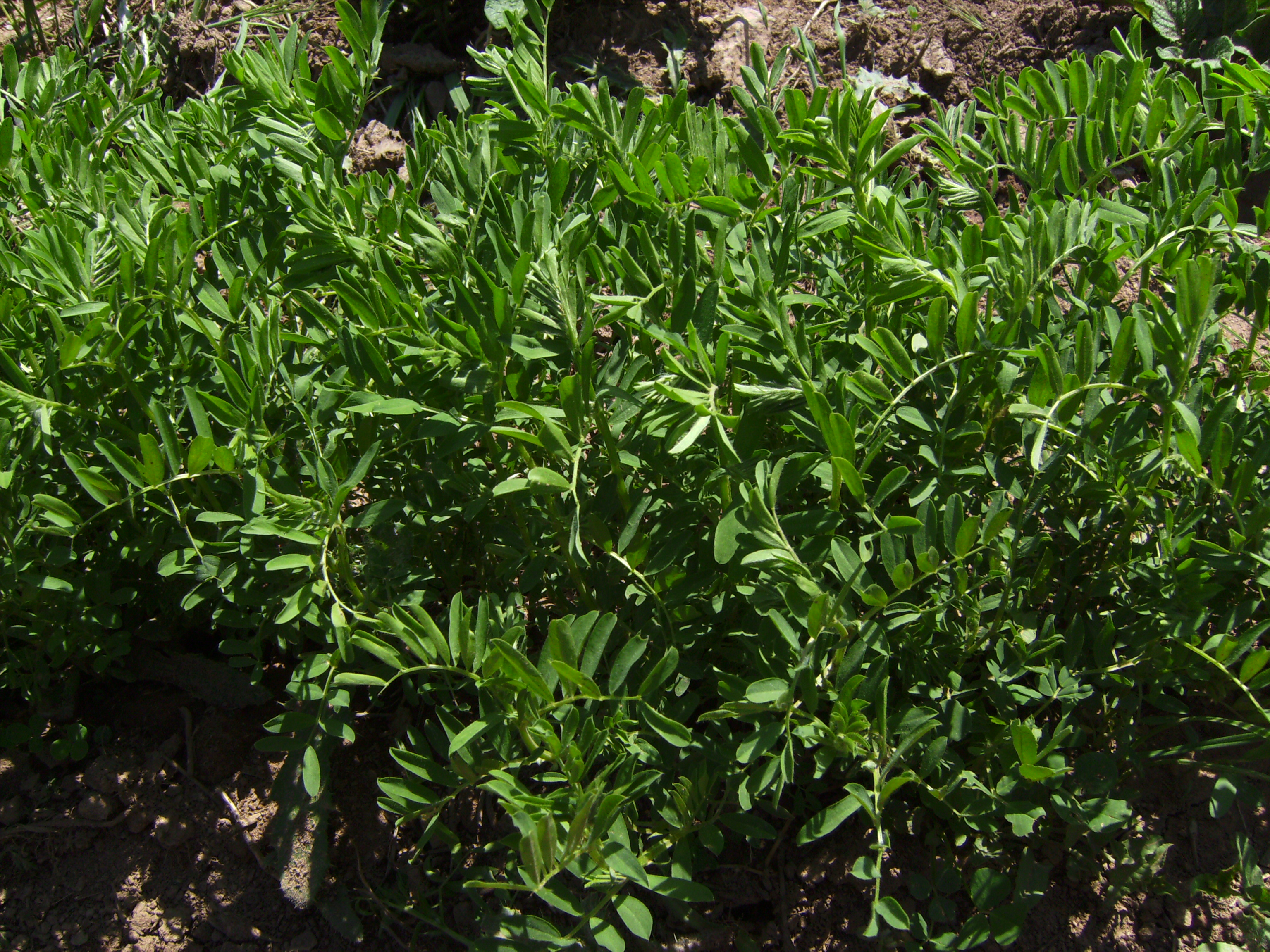 Lentil plants 75 days after emergence, Castelltallat, Catalonia